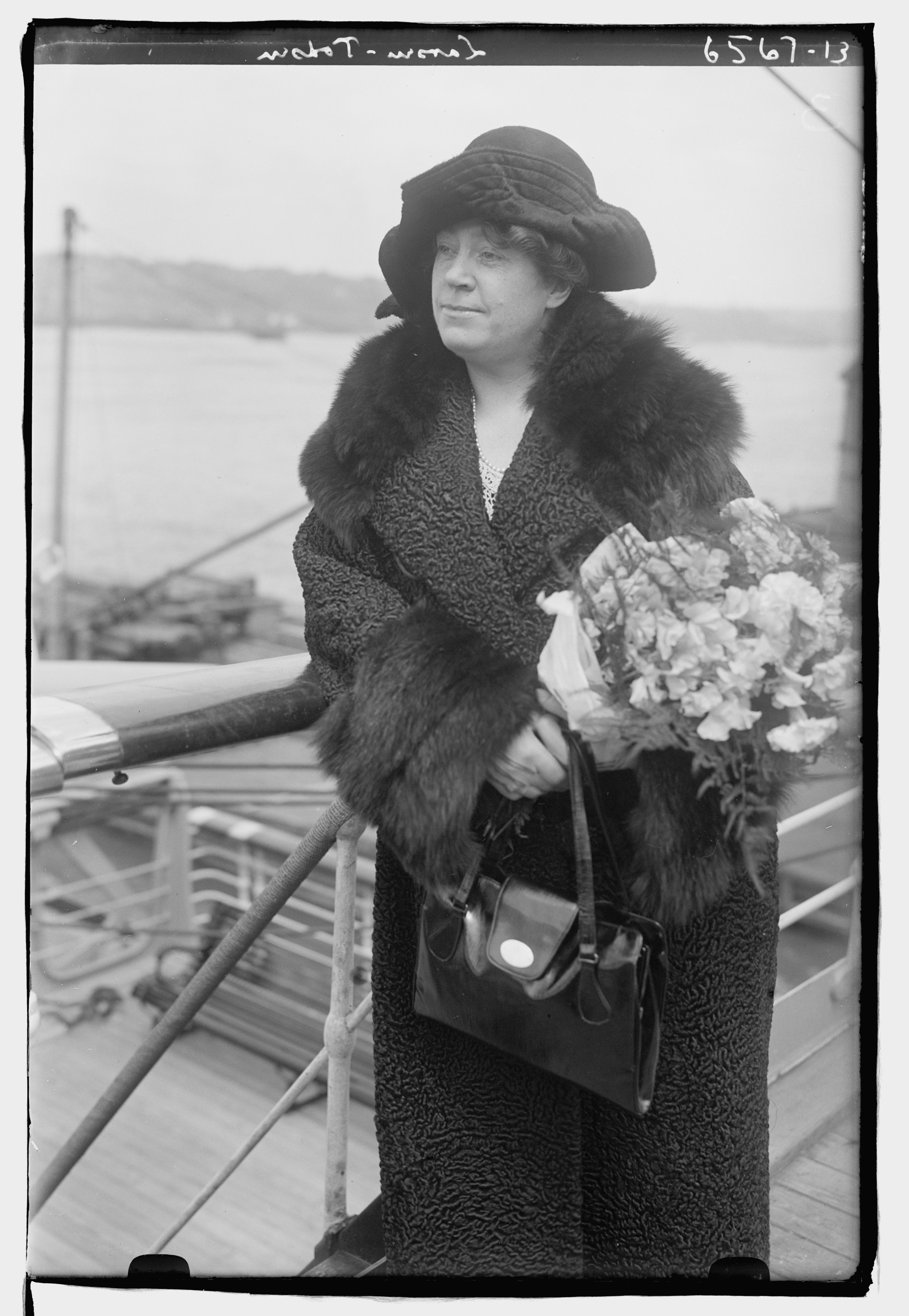 Title: Larsen - Todsen Abstract/medium: 1 negative : glass ; 5 x 7 in. or smaller.